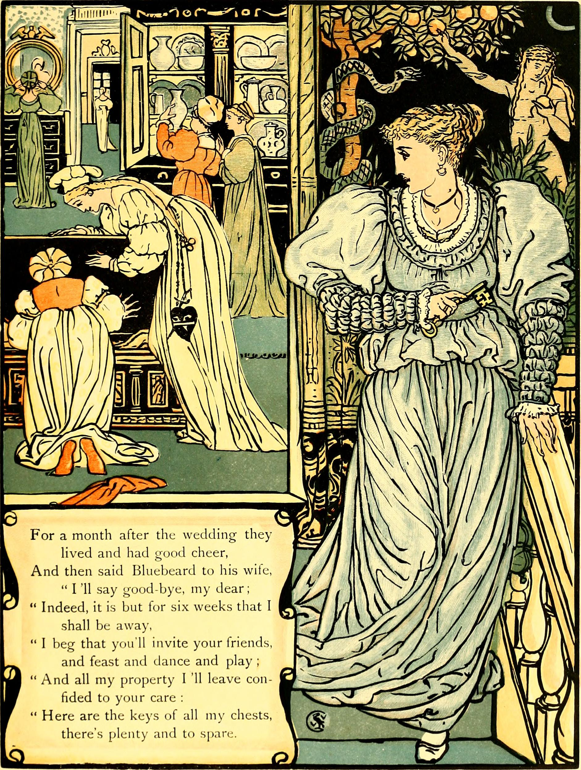 Title: The sleeping beauty picture book : containing The sleeping beauty, Bluebeard, The baby's own alphabet Year: 1911 (1910s) Authors: Crane, Walter, 1845-1915 Subjects: Publisher: New York : Dodd, Mead and Co. Text Appearing Before Image: ' Text Appearing After Image: For a month after the wedding theylived and had good cheer,k And then said Bluebeard to his wife,JB I 11 say good-bye, my dear; CJ Indeed, it is but for six weeks that Ishall be away, I beg that youll invite your friends,. and feast and dance and play ; gi And all my property I 11 leave con-M fided to your care : W Here are the keys of all my chests,I theres plenty and to spare. But this small key belongs to one small room on the ground-floor,— And this you must not open, or you will repent it sore.And so he went; and all the friends came there from far and wide,And in her wealth the lady took much happiness and pride;But in a while this kind of joy grew nearly satisfied